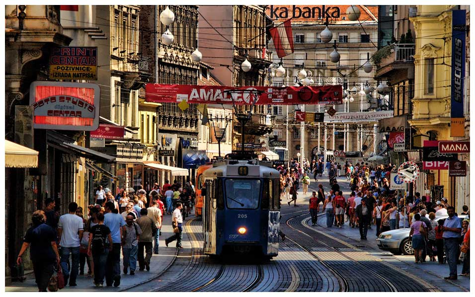 Ilica Street in Zagreb, Croatia.